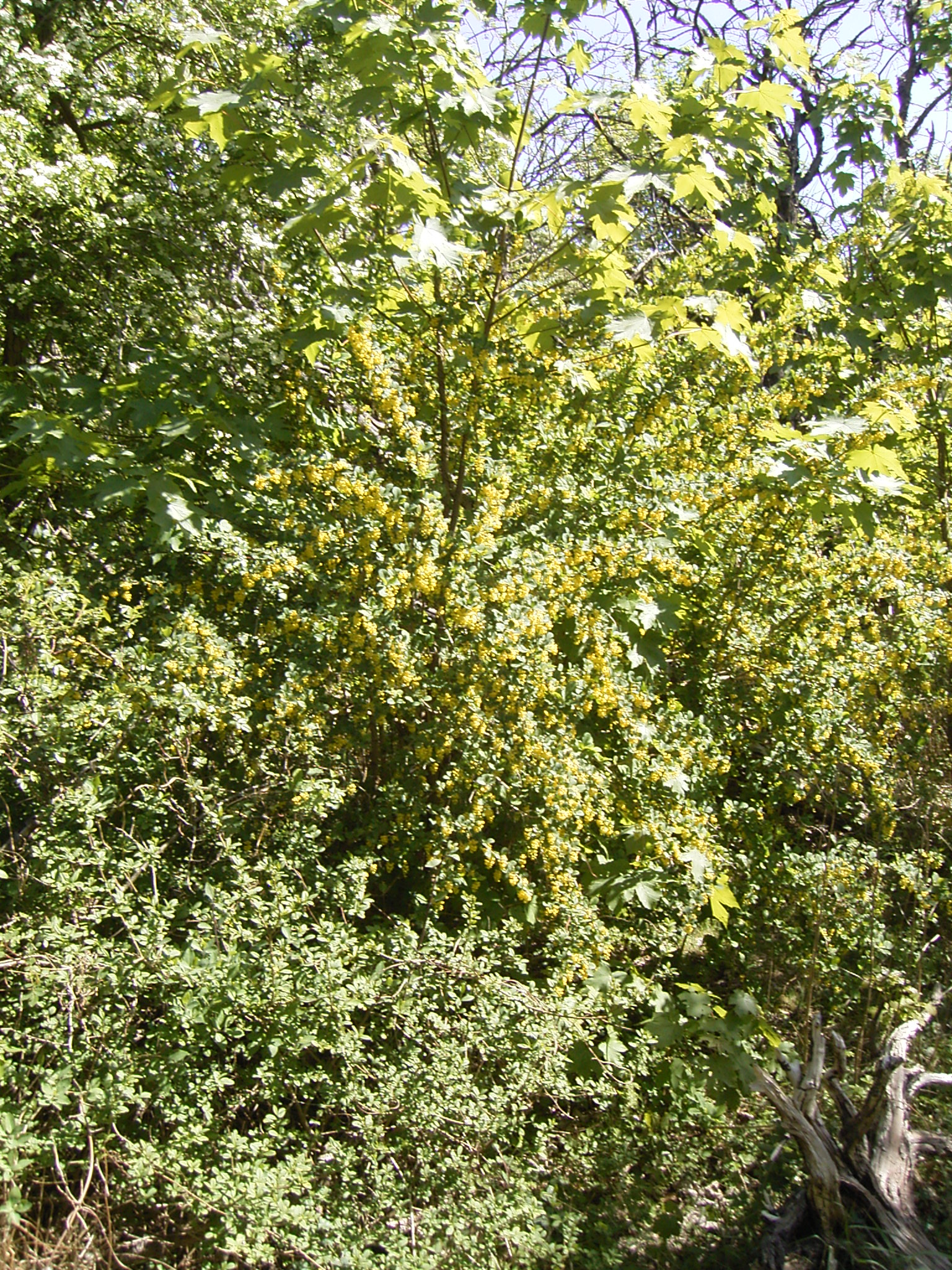 This photo shows berberis vulgaris